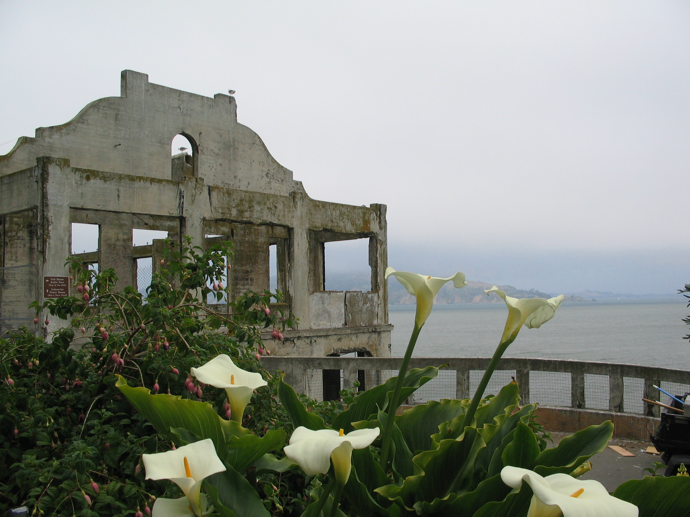 Alcatraz Island Flowers